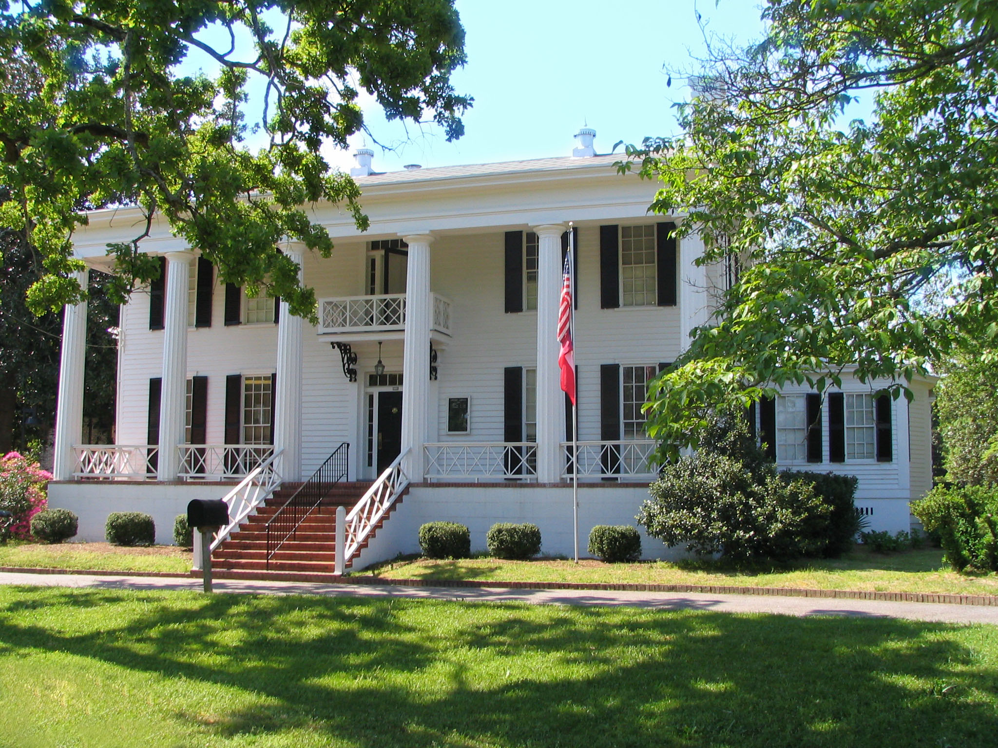 Appleby Library in Augusta, Georgia (USA).Appleby Library, Augusta GA